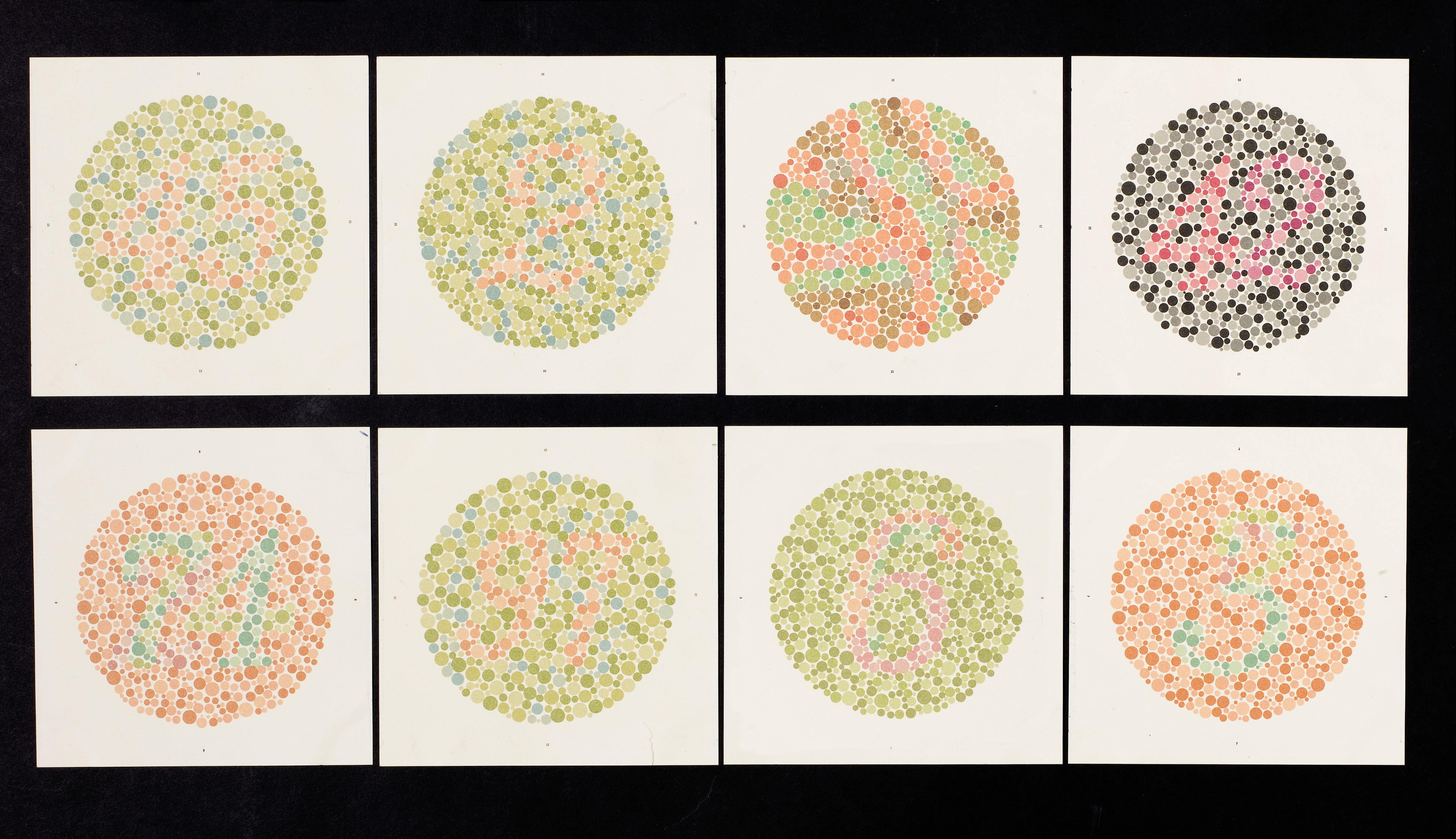 Eight Ishihara charts for testing colour blindness, Europe, 1917-1959 Colour blindness is tested using these eight placards. They are known as Ishihara charts. They are named after their inventor, Japanese ophthalmologist Shinobu Ishihara (1897–1963). Each image consists of closely packed coloured dots and a number. The patient must identify the number or image he or she can see. The type of colour blindness a patient has is identified using the range of charts. There are several types of colour blindness. These range in severity. In dichromatism, there is difficulty seeing one of the three primary colours: red, blue or green. In anomalous trichomatsis, there is reduced sensitivity to certain colours. In the rarer monochromatism, there is no colour vision and the world is seen in white, black and grey shades. Ishihara devised his test in 1917. It is still used. Medical Photographic Library